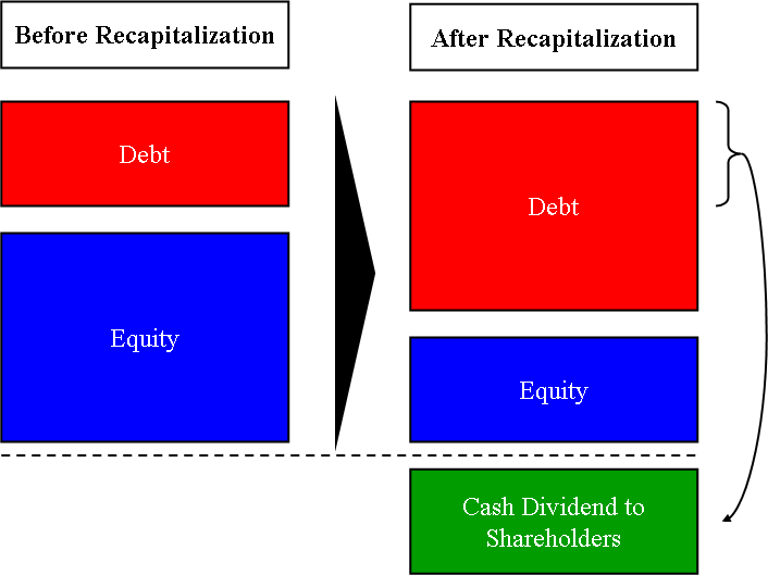 Diagram of a dividend recapitalization transaction. A company issues new debt to pay a dividend to its shareholders.